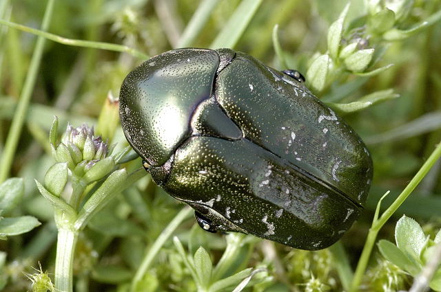 Picture taken in Commanster, Belgian High Ardennes . Species: Protaetia metallica det. F. Vitali